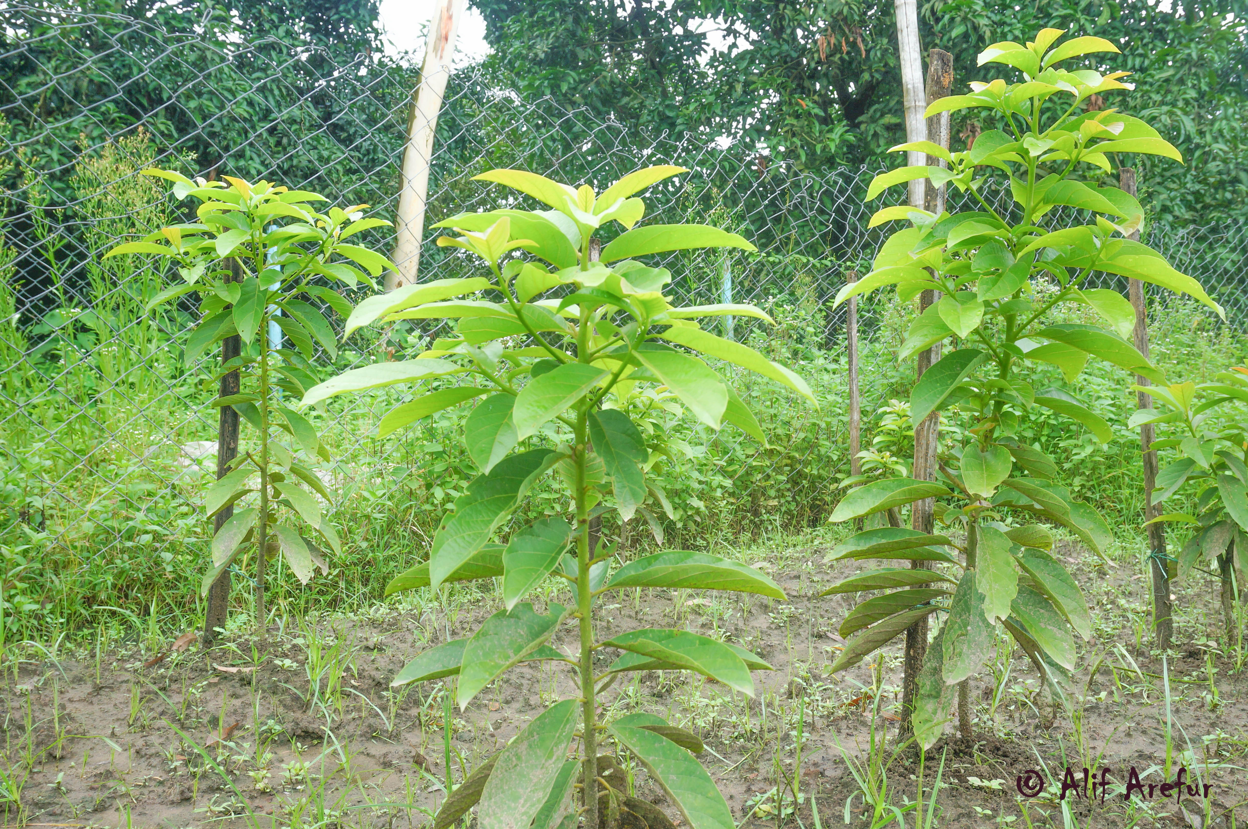 Six month old avocado plants at Malik's Farm